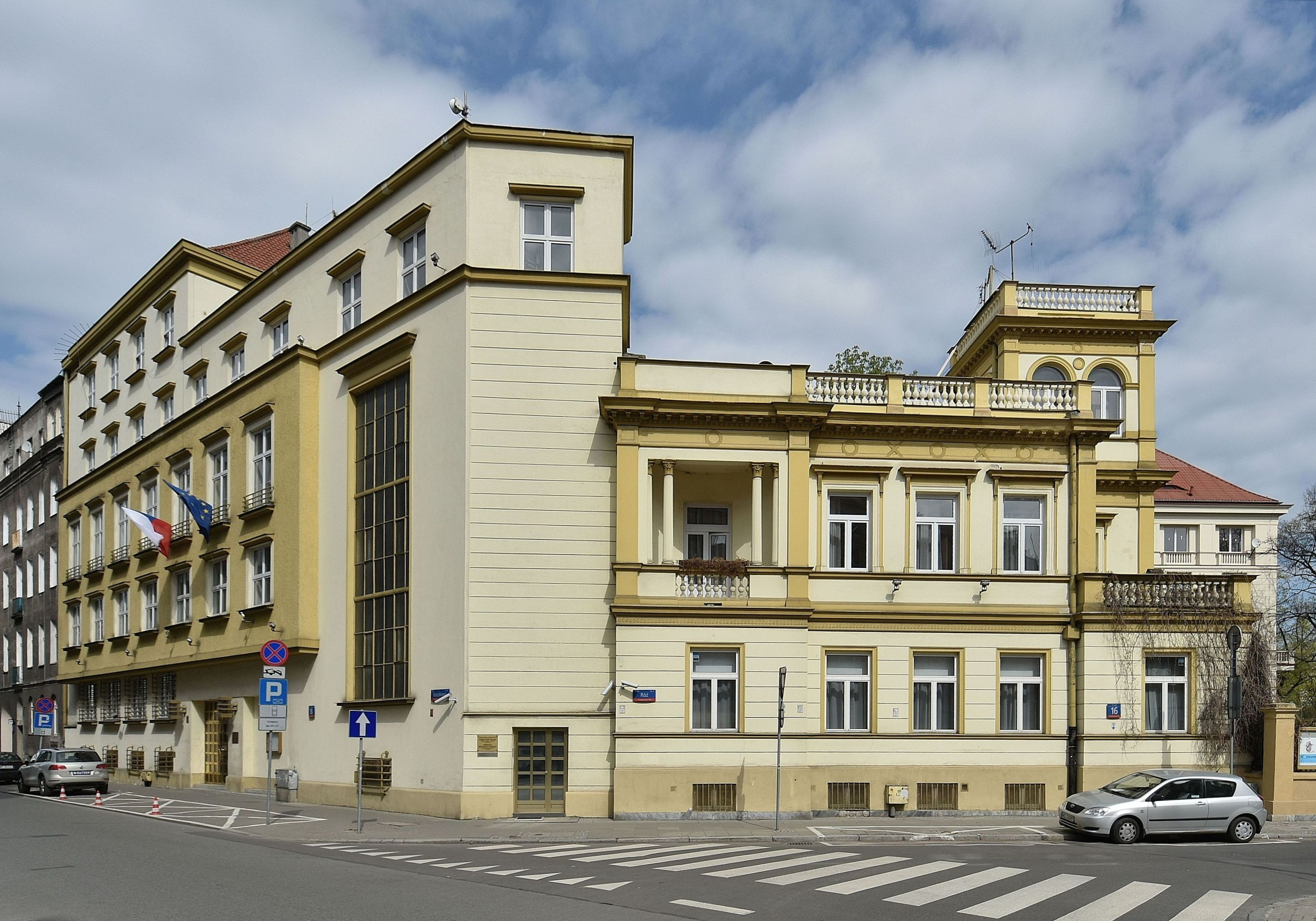 Embassy of the Czech Republic at 18 Koszykowa Street in Warsaw